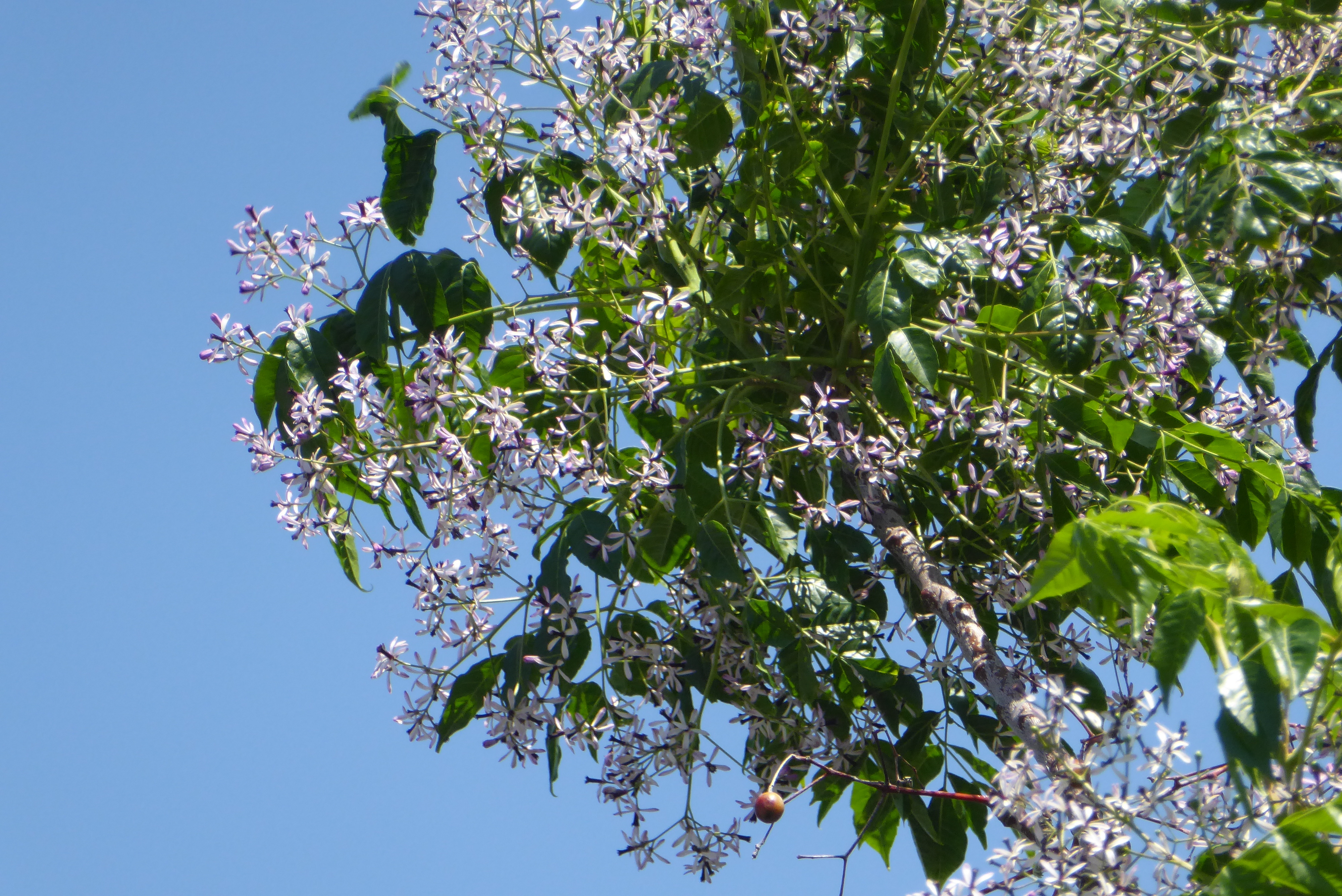 Ramat Gan Israel